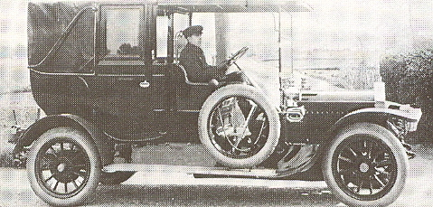 1910 Standard 20 hp